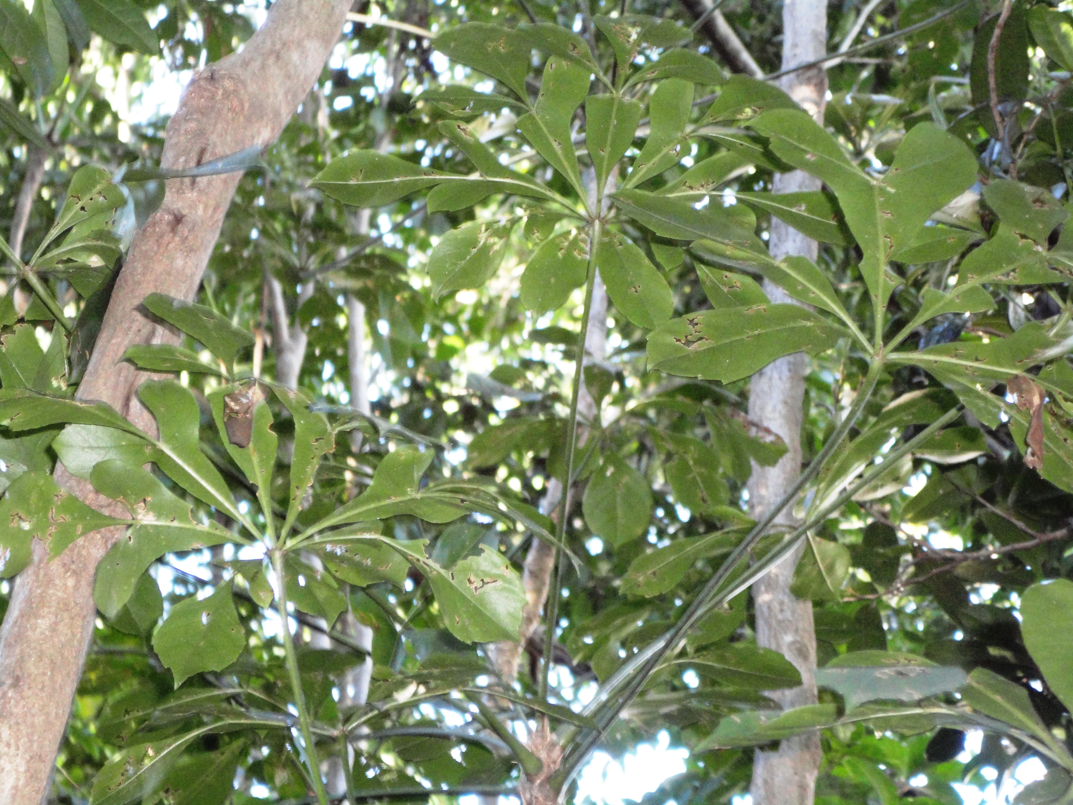 Foliage of a Wedge-fruited cabbage tree, Burman Bush Nature Reserve, Durban